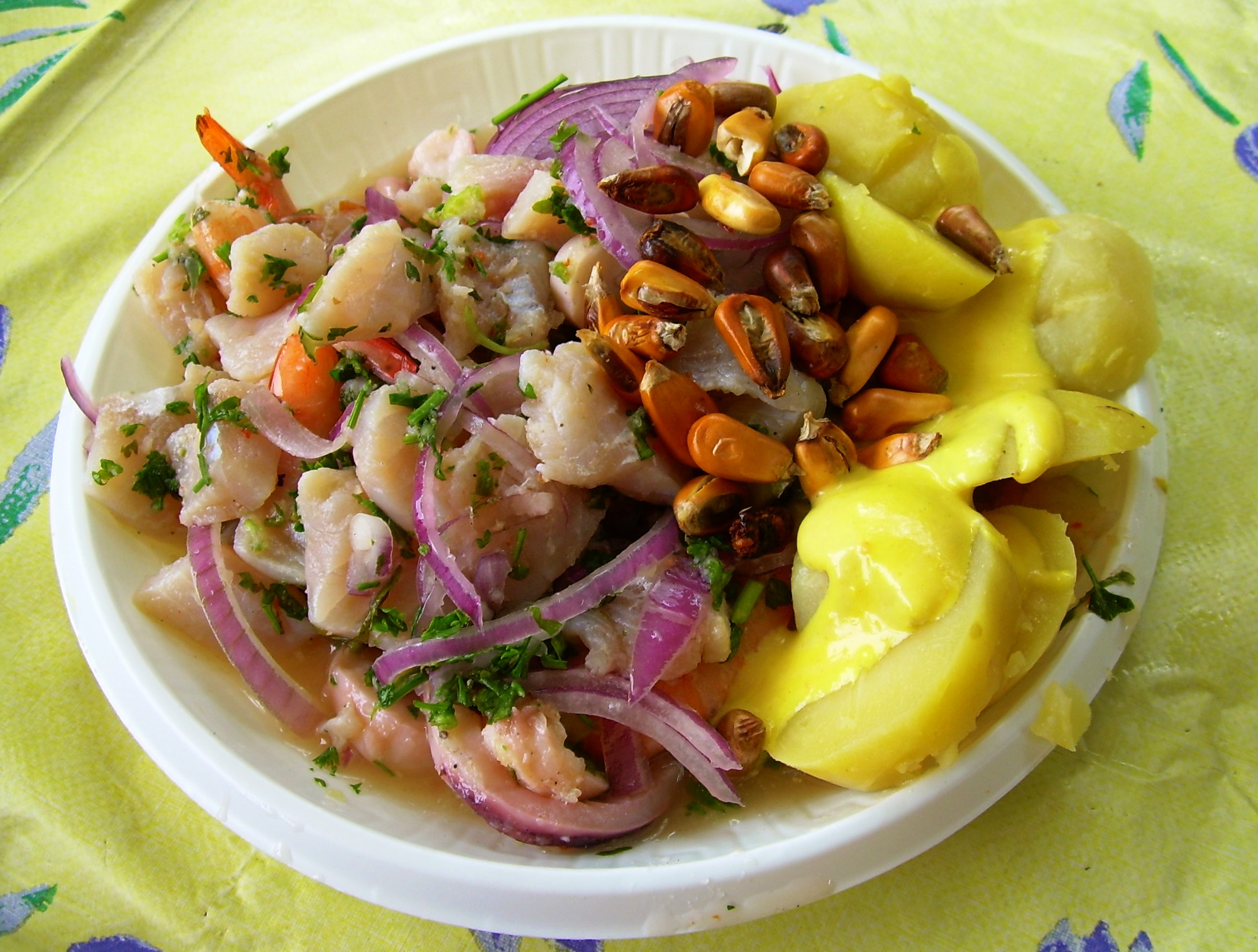 Corvina Ceviche with cancha (toasted corn) and potatoes with huancaína sauce (cheese and yellow chilli). Taken at the Peruvian Market located in front of Saint Rose of Lima Church, Caracas